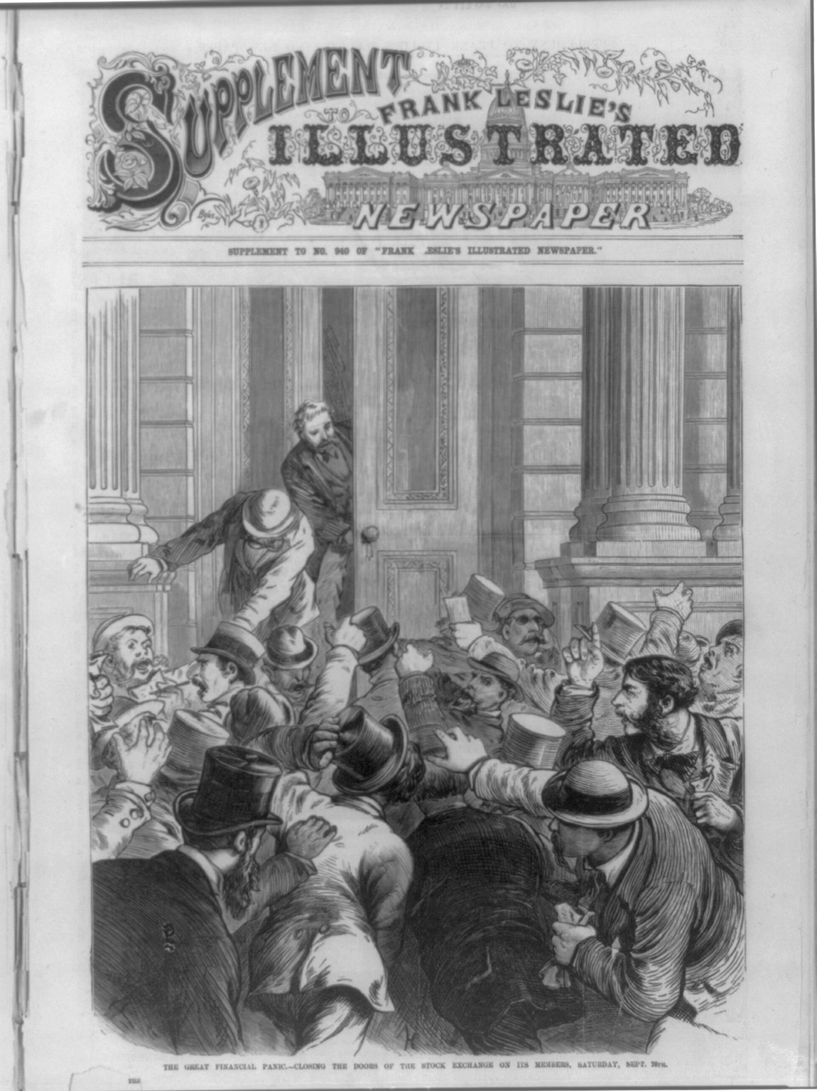 Title: The Great Financial Panic of 1873 - Closing the door of the Stock Exchange on its members, Saturday, Sept. 20th Abstract/medium: 1 print : wood engraving.